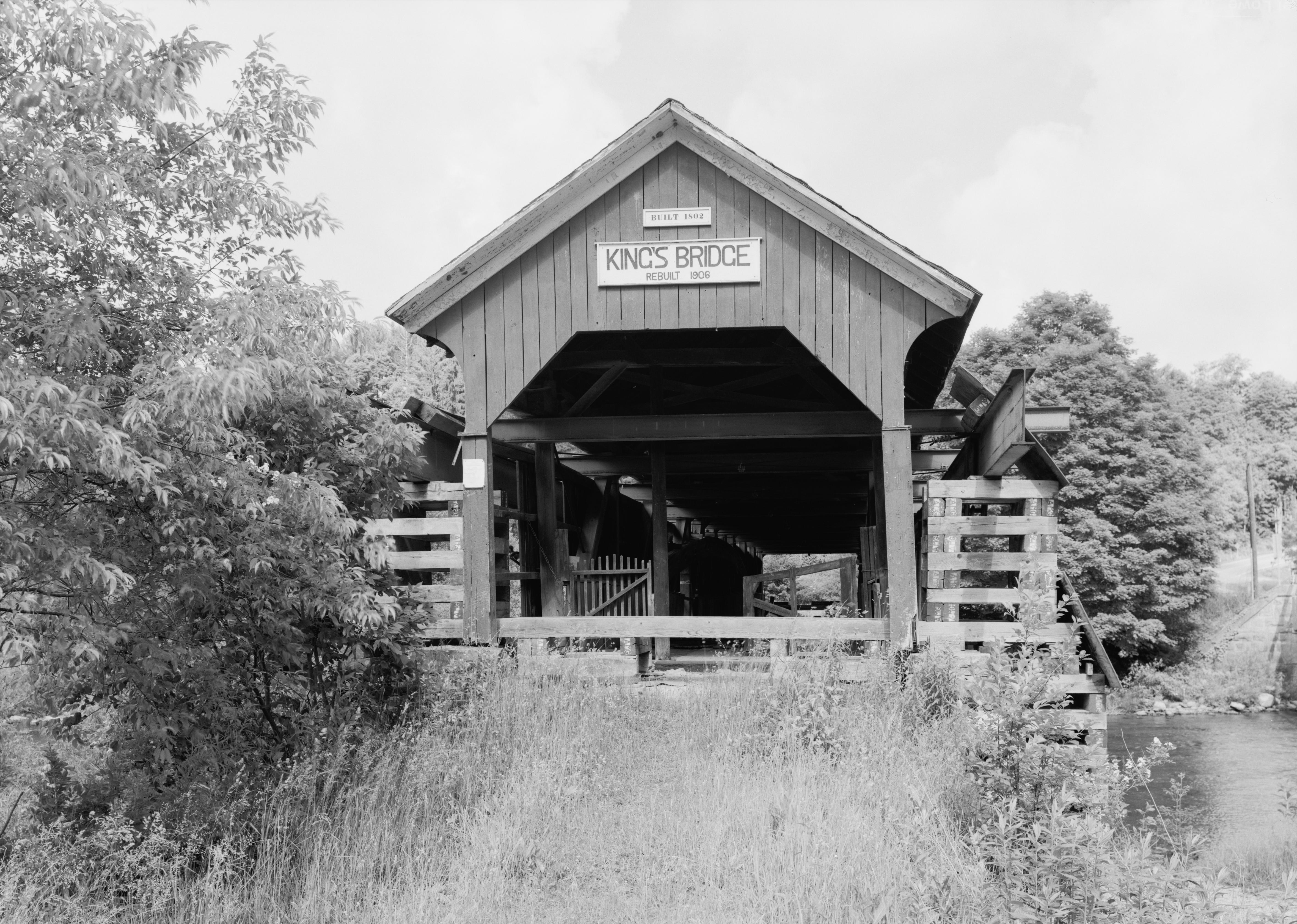 Eastern portal of the King's Bridge, which spans Laurel Hill Creek off Pennsylvania Route 653 west of Somerset in Middlecreek Township, Somerset County, Pennsylvania, United States. Built in 1806, this king post truss bridge is listed on the National Register of Historic Places.